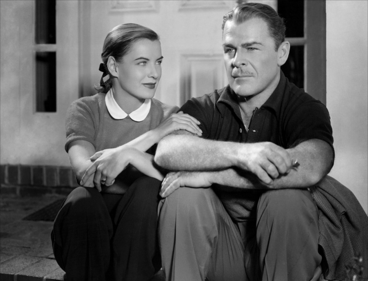 Ella Raines & Brian Donlevy in Impact - cropped screenshot